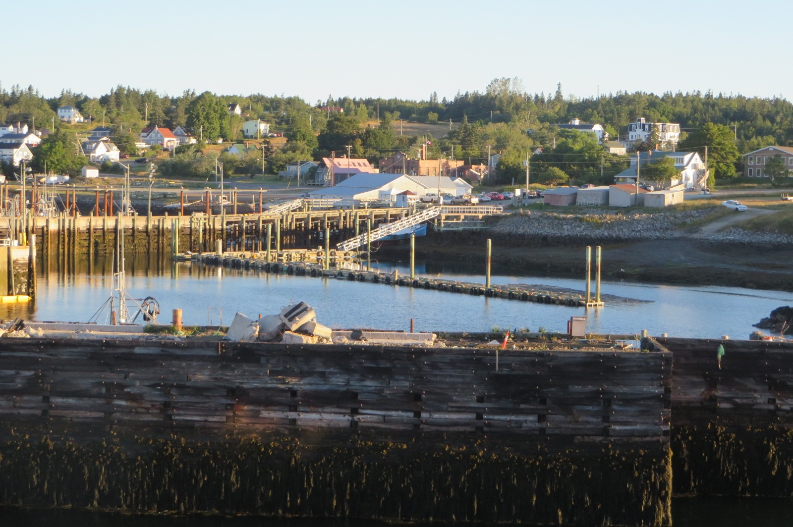 View of North Head, New Brunswick, on Grand Manan Island